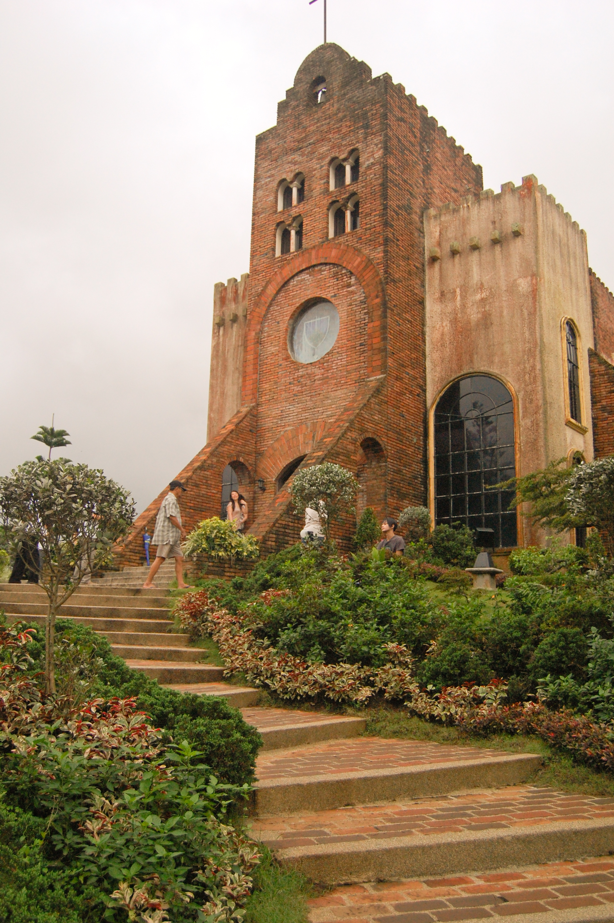 Situated in Batulao, Nasugbu, Batangas, Caleruega Church is a favorite venue for retreats, workshops, outdoor camping, team building, agricultural seminars and others. The vast hills of Caleruega enables you to commune with nature and feel God's love. This place is run by the Dominican Order.